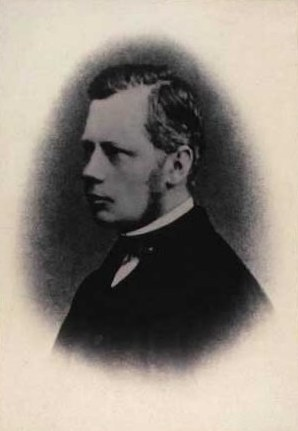 Danish Minister of the Interior and of Justice, later district officer Carl Ludvig Vilhelm Rømer von Nutzhorn (1828-1899)